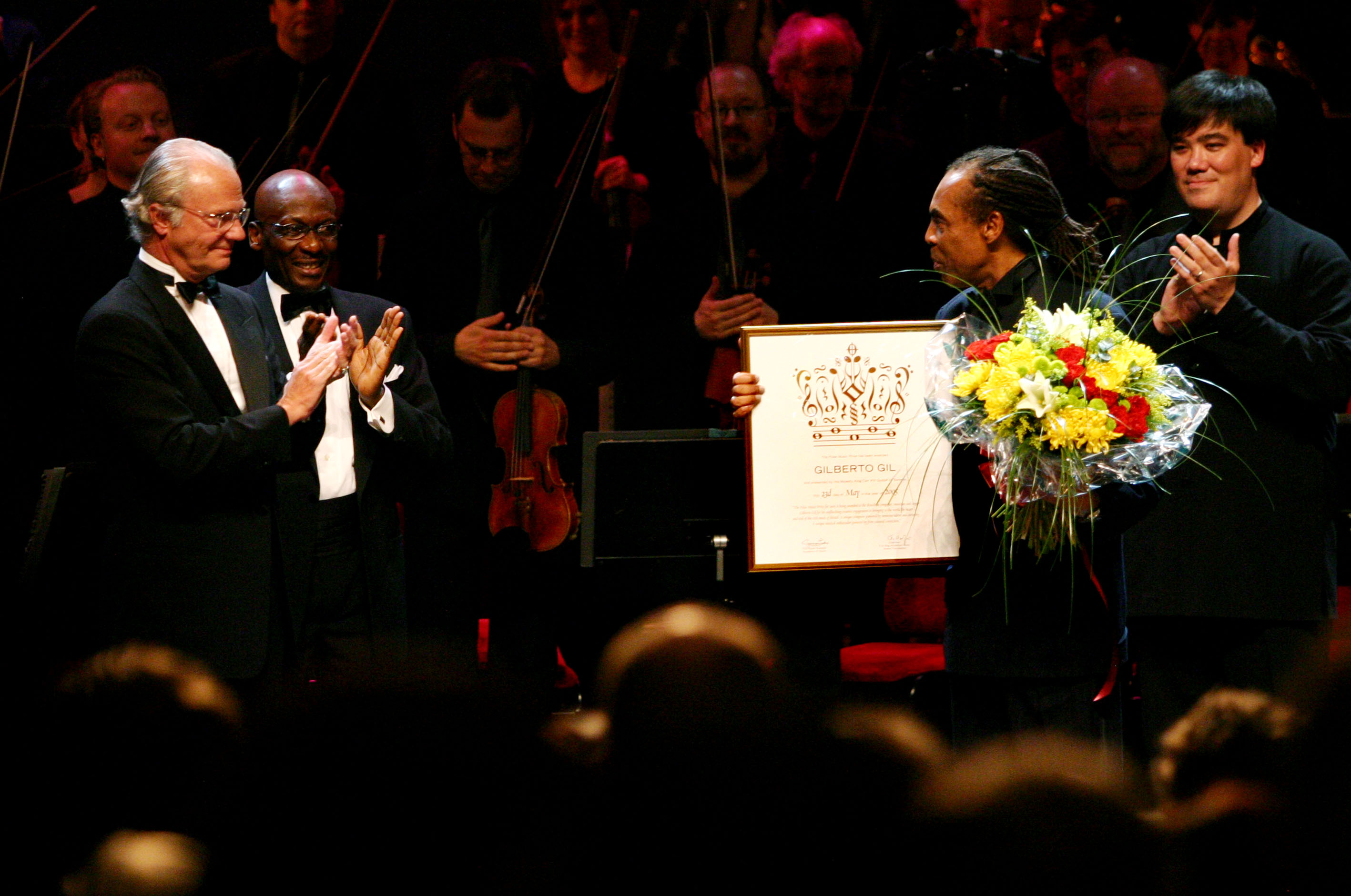 Gilberto Gil receives the 2005 Polar Music Prize from the hands of His Majesty, King Carl XVI Gustaf of Sweden at the Stockholm Concert Hall. Jimmy Cliff is to the right of the King.